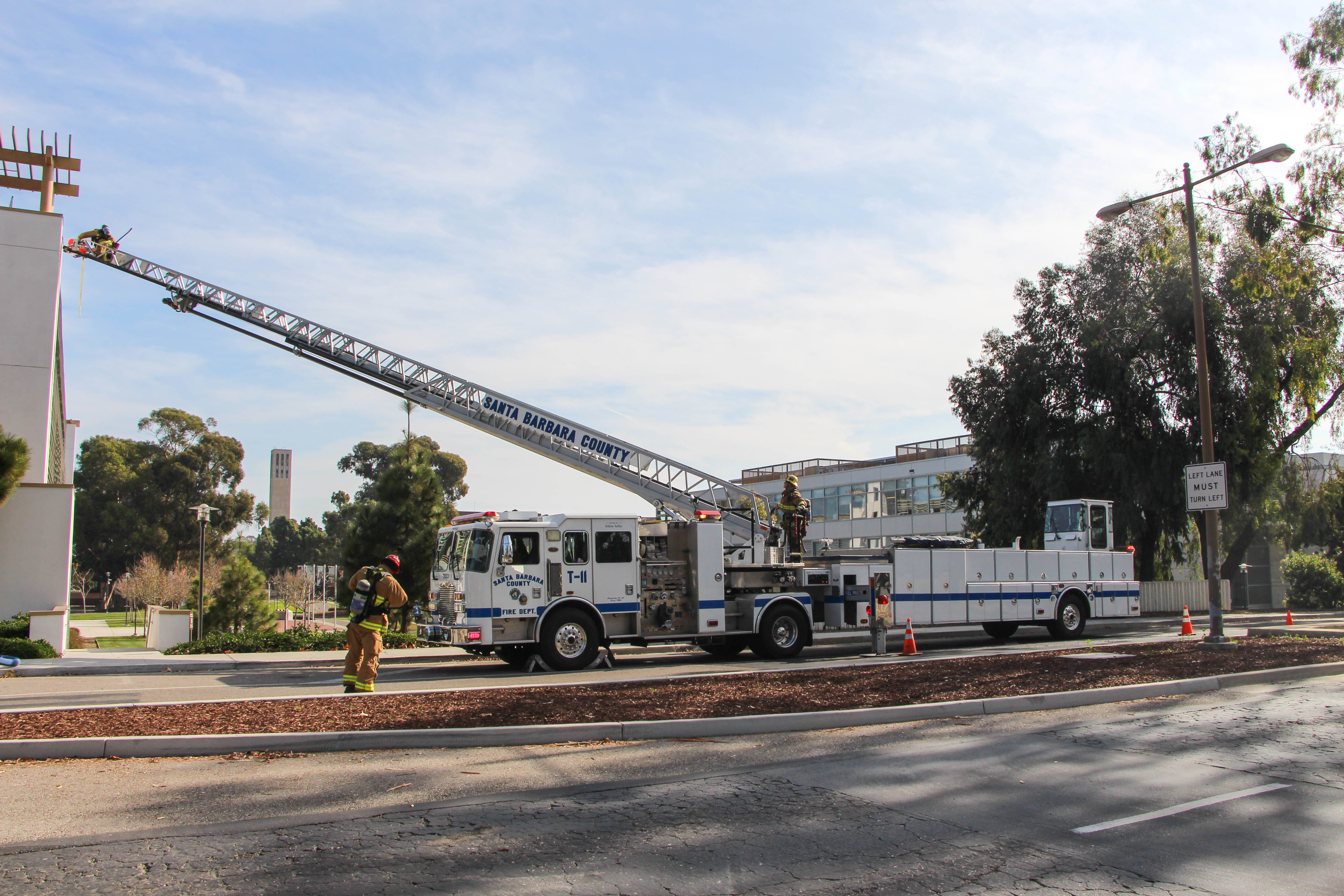 Truck 11 for the Santa Barbara County Fire Department